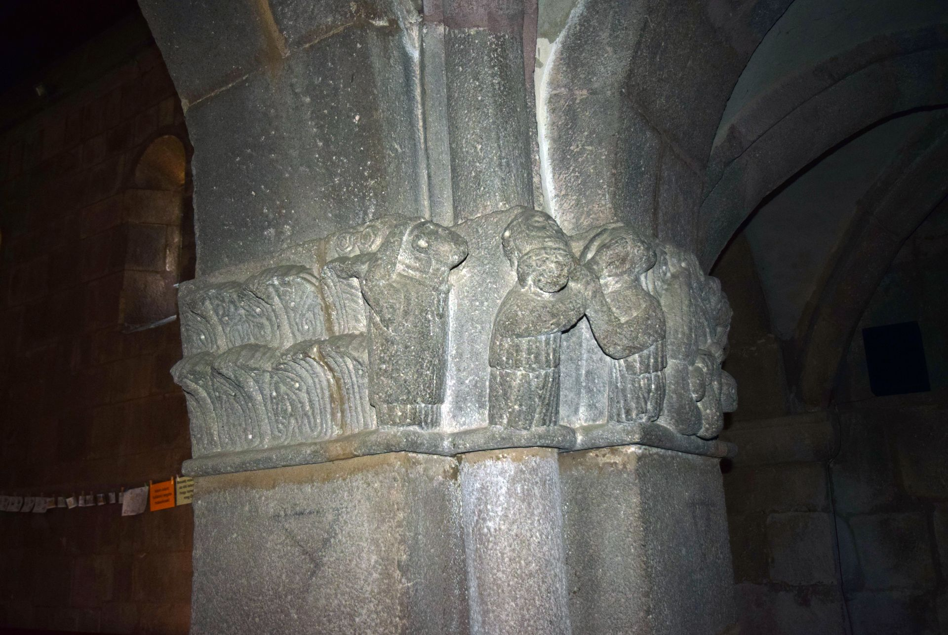 Karcsa, church south pier